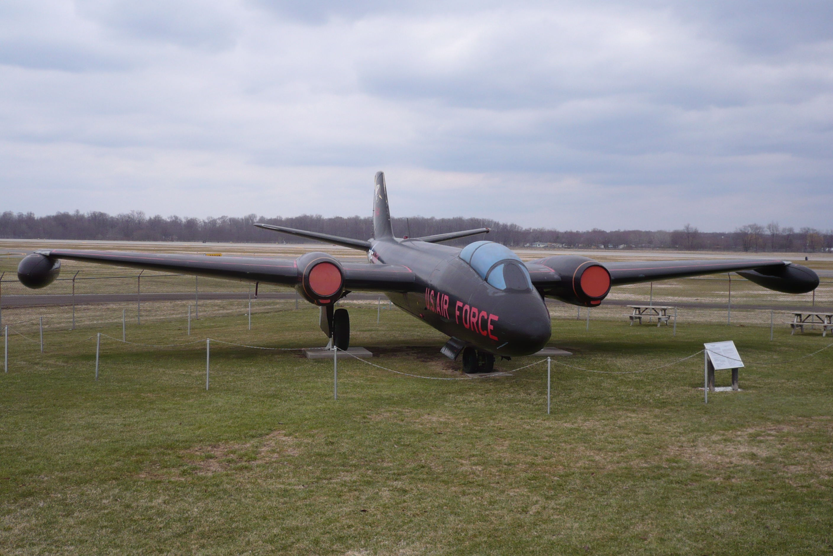 Aircraft at the Air Zoo